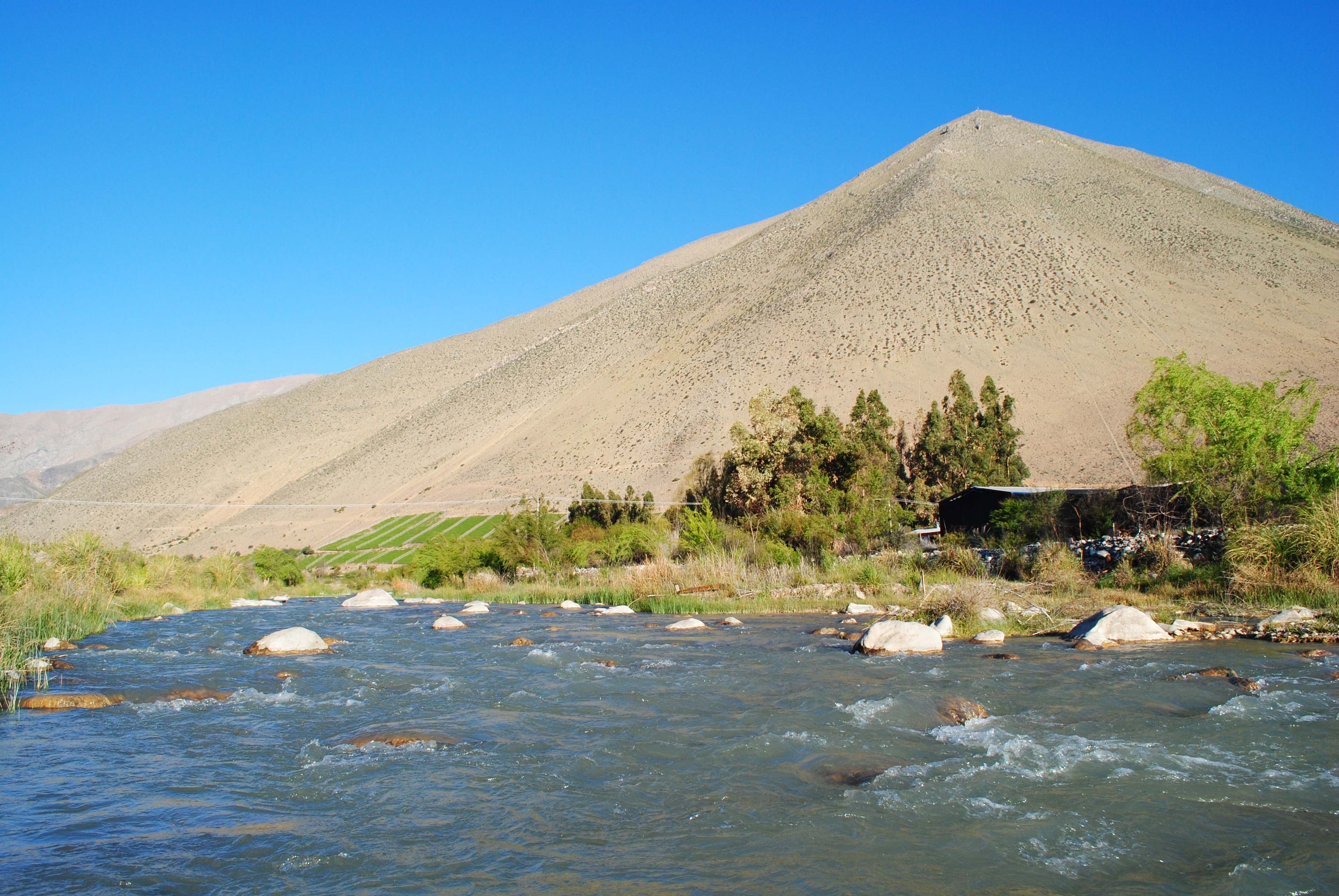 A una hora de la Serena.